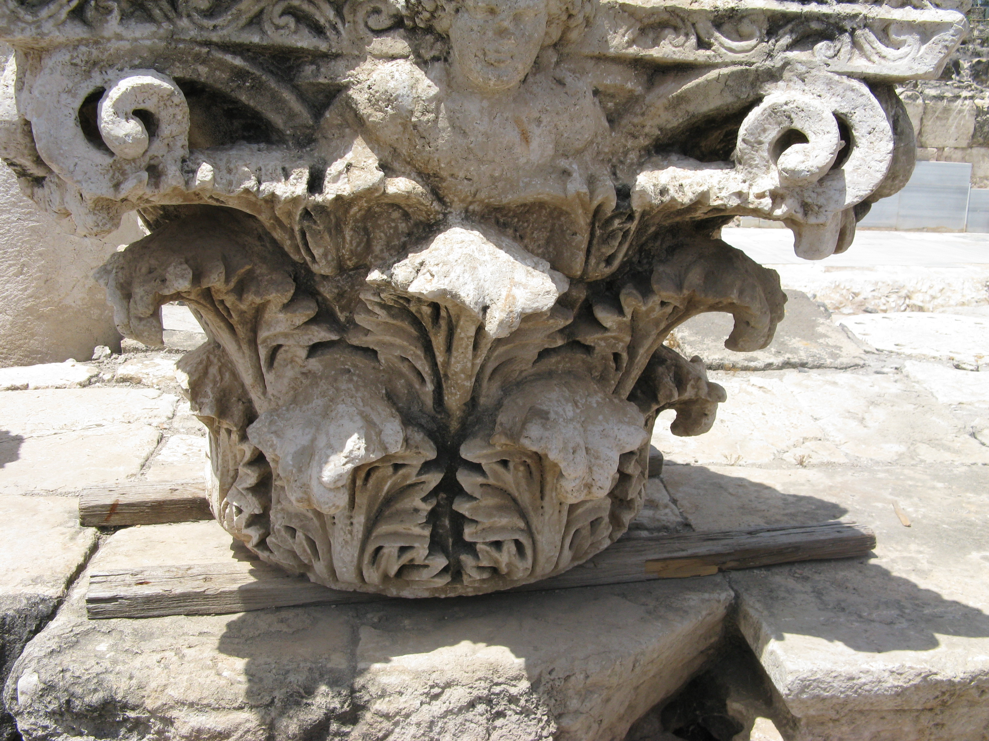 The capital of column - Corinthian order. Scythopolis